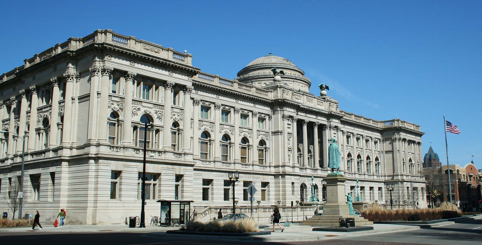 Milwaukee Central Library, Milwaukee, Wisconsin, National Register of Historic Places. Designed by Ferry & Clas.